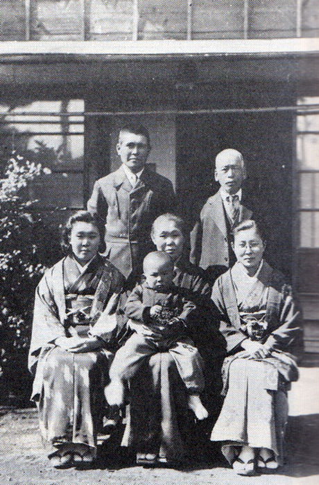 JRA Hall of fame trainer inductee Yukio Inaba and his family.